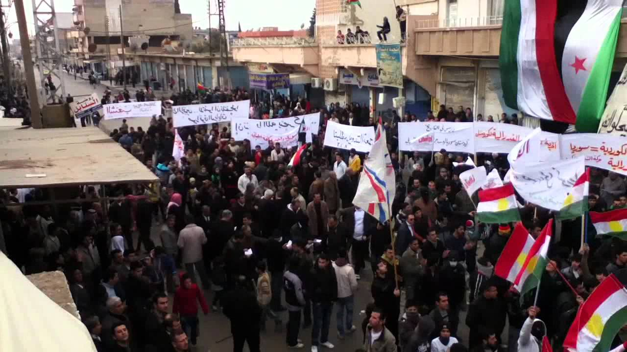 Kurds, Assyrians, and Arabs demonstrate against the government in the city of Qamishli, northeastern Syria.